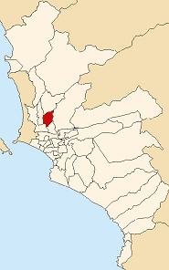 Map of Lima highlighting the Independencia district in Lima.